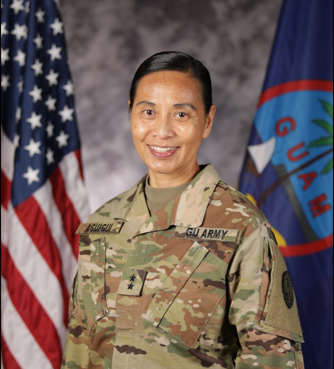 Official Photo of MG (GU) Esther Aguigui the Adjutant General of the Guam National Guard.